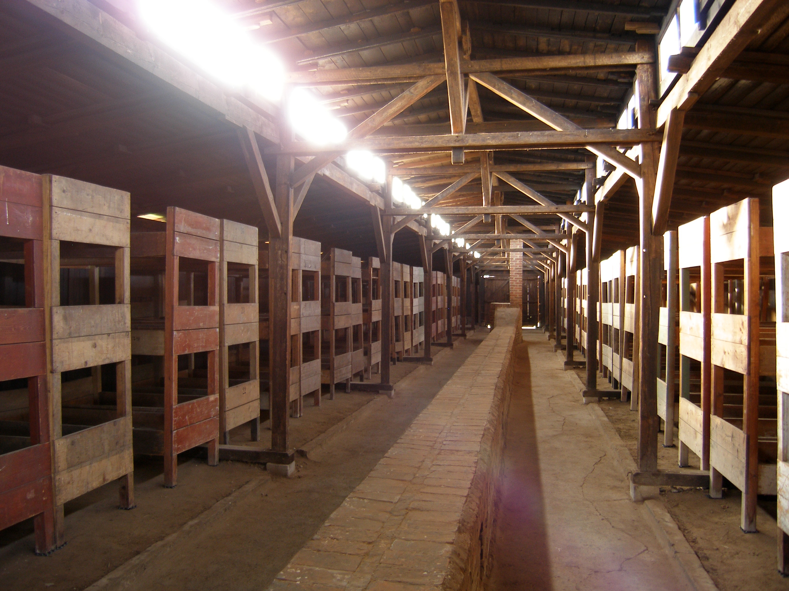 Interior of a wooden barrack in the quarantaine section of concentration camp Auschwitz Birkenau.